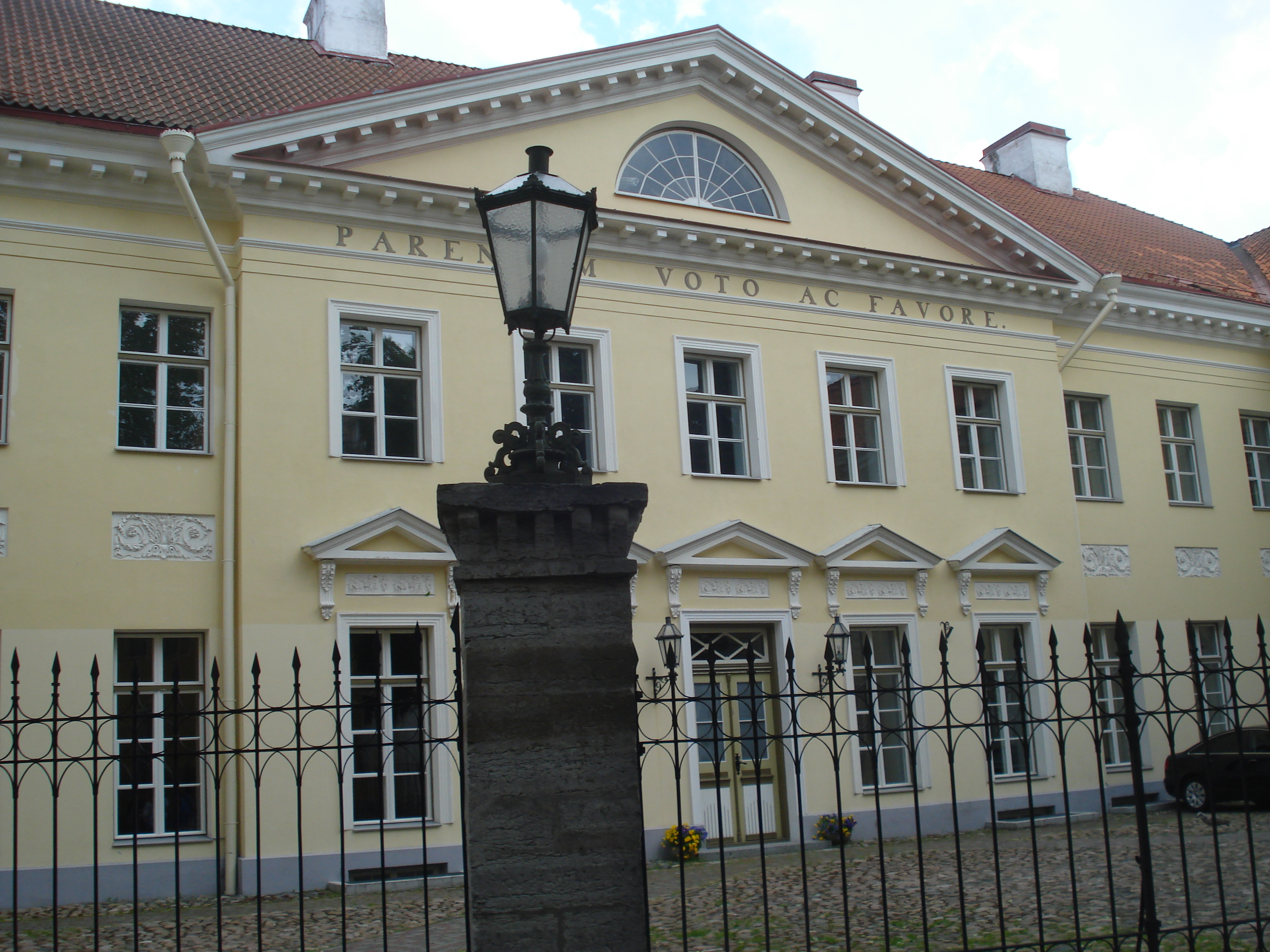 Сity palace of Reinhold August von Kaulbarsto at Kohtu Street 8 in Tallinn. Designed in 1809 by the Tallinn City Architect Carl Ludwig Engel; 1811 master constructor C.J. Jänichen designed the wings. 1850 Count Alexander von Benckendorff became the new owner of the building. Since 2004 the Office of the Chancellor of Justice